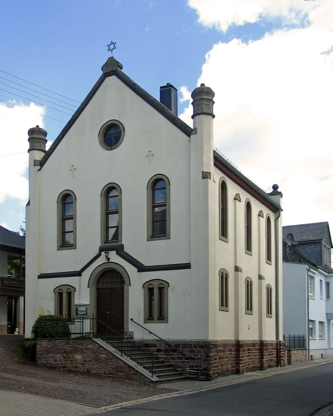 Synagogue of Laufersweiler in the Hunsrueck area, Germany